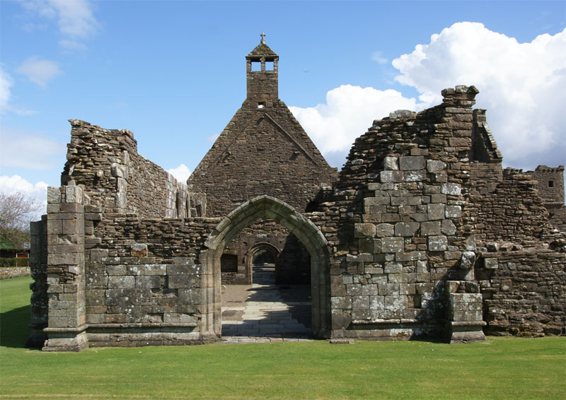 Crossraguel Abbey (Scotland) - church